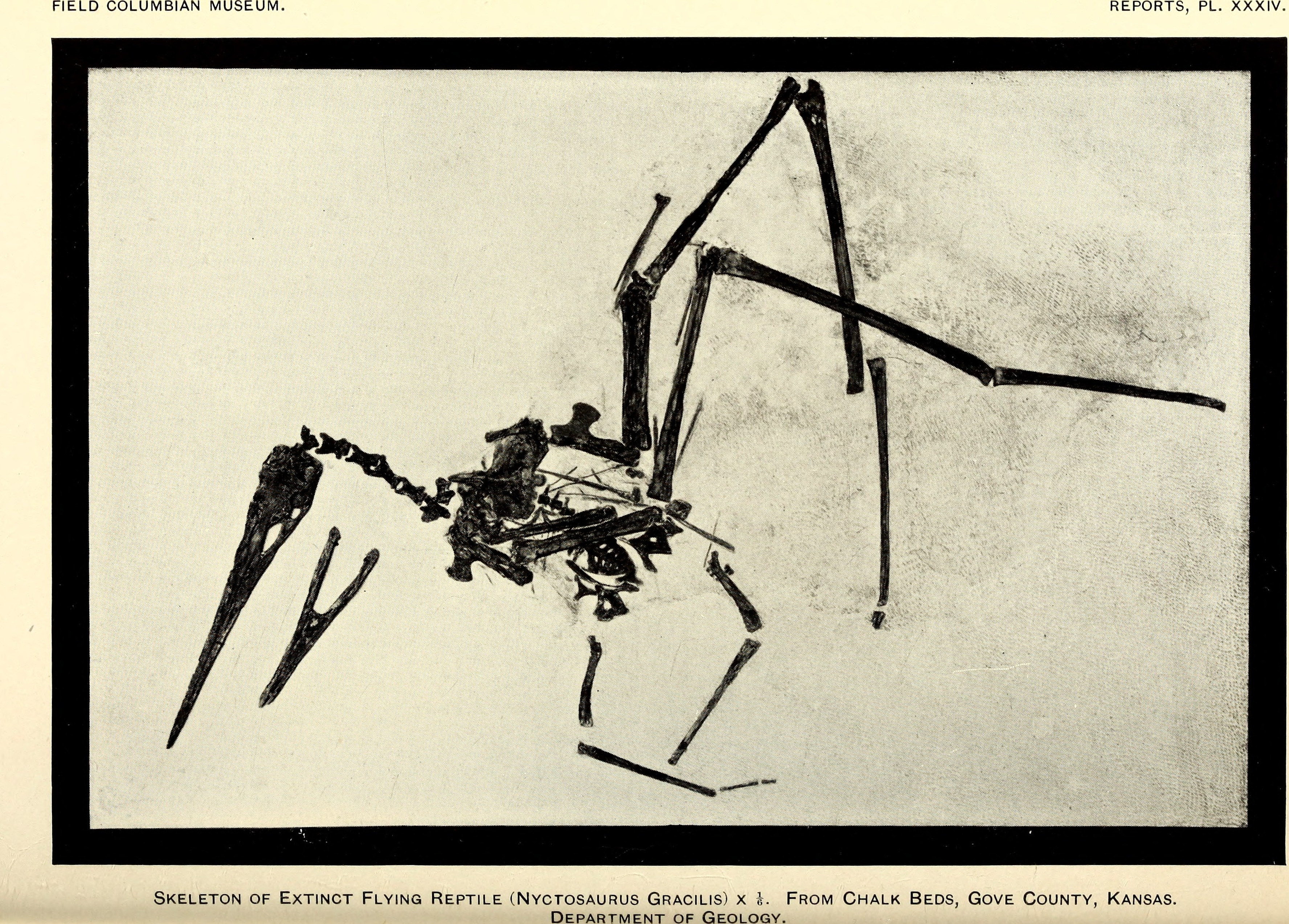 Title: Annual report of the Director to the Board of Trustees for the year ... Year: 1895 (1890s) Authors: Field Columbian Museum Subjects: Field Columbian Museum; Natural history Publisher: Chicago, U. S. A. : Field Columbian Museum Text Appearing Before Image: ' Text Appearing After Image: I